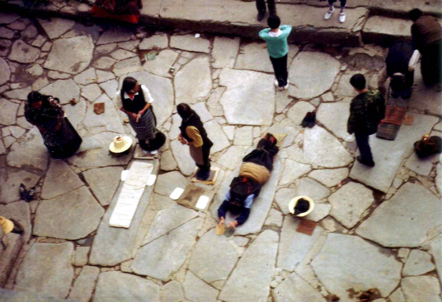 I took this photo in 1993. John E. Hill 03:30, 1 February 2007 (UTC)